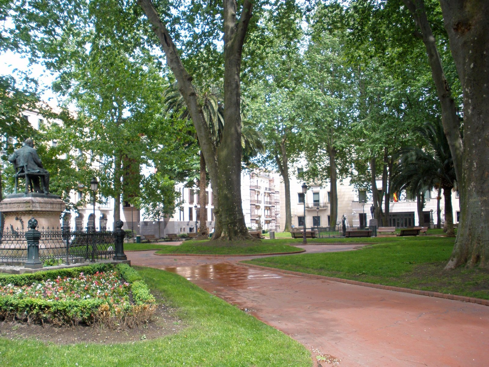 Jardines de Albia, en Bilbao